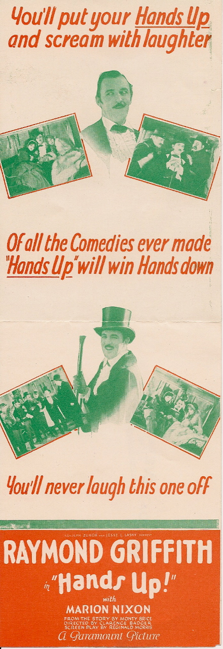 Hands Up! (1926) is a silent comedy film directed by Clarence Badger, co-written by Monte Brice and Lloyd Corrigan, and starring Raymond Griffith, one of the great silent movie comedians. This is a pamphlet for the film with clearly no copyright notice published on it, originally published pre-1978, that makes it in the public domain.